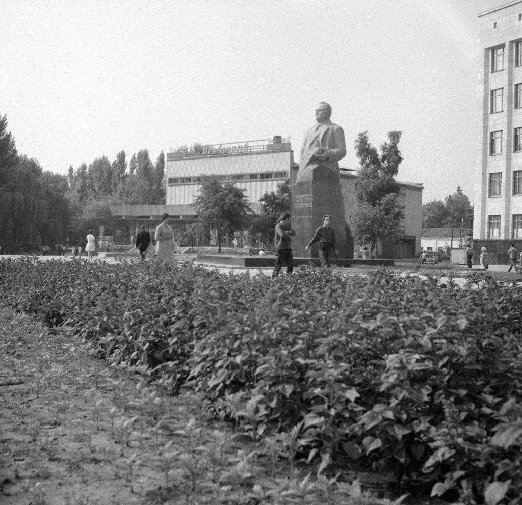 “Monument to Sergei Korolyov”. A monument to space ship designer Academician Sergei Korolyov in Zhitomir.